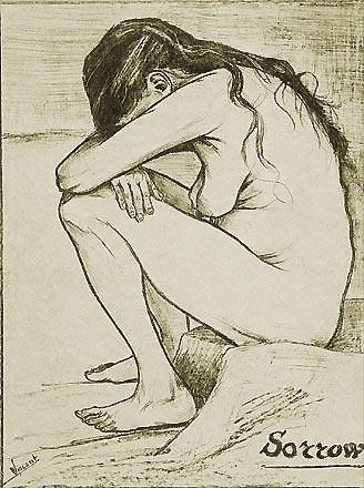 Impressions (De La Faille) I Van Gogh Museum, F 1655/I, annotated by Vincent: épreuve d'essai II The Museum of Modern Art, New York, annotated by Vincent: épreuve d'essai III Van Gogh Museum, F 1655/III, annotated by Vincent: Ire épreuve